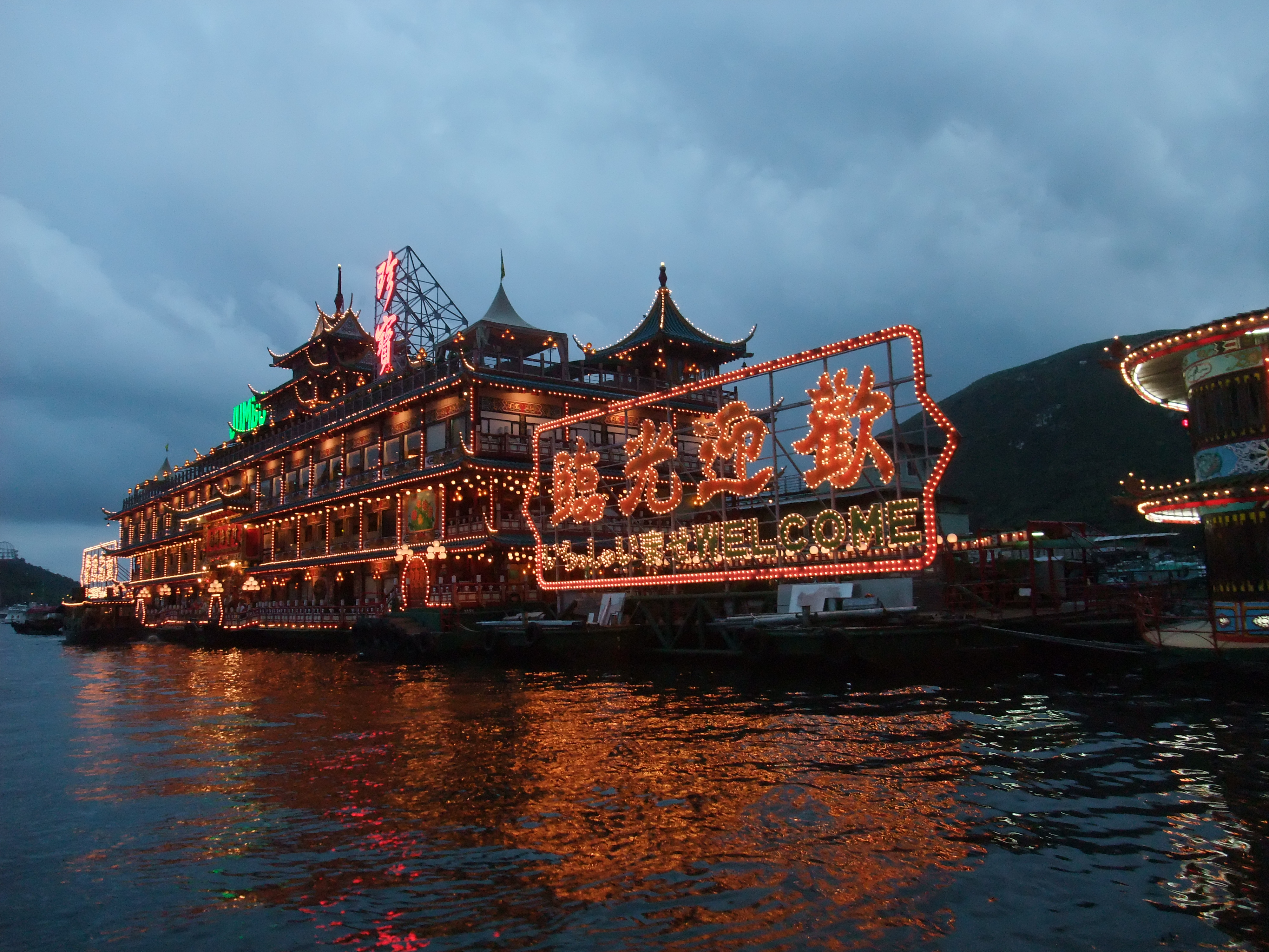 Photo of Jumbo Floating Restaurant